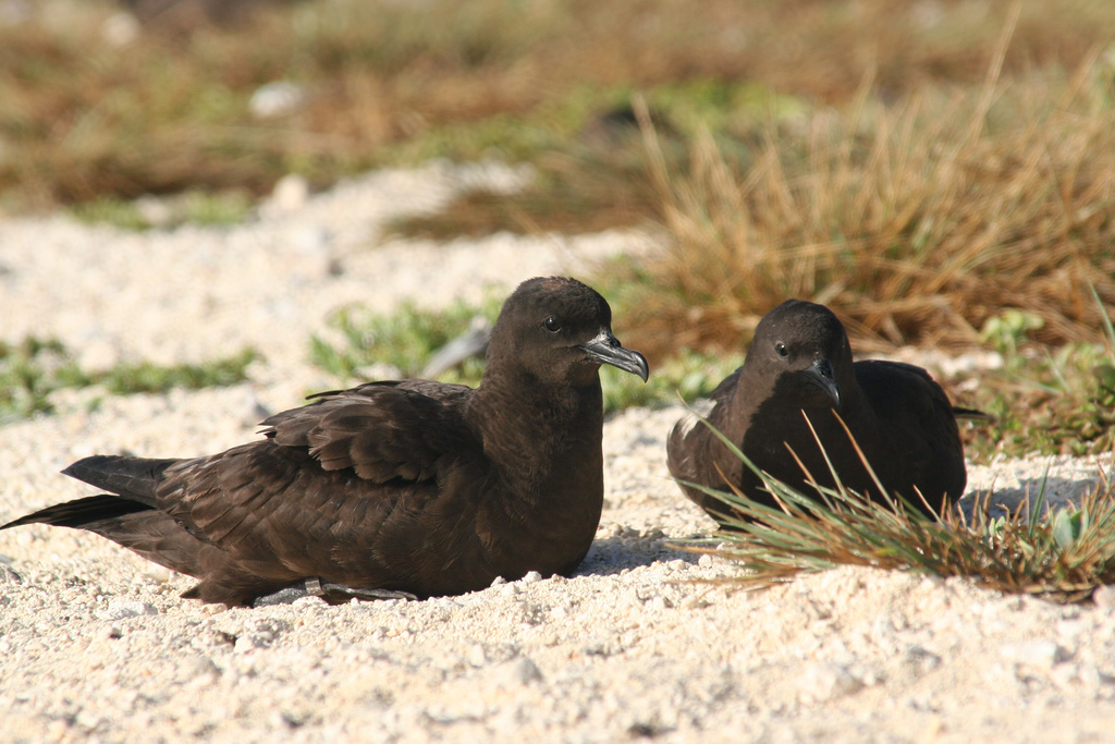 Christmas Shearwater Puffinus nativitatis pair roosting on Tern Island, French Frigate Shoals, Hawaii